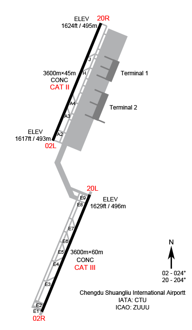 The diagram of Chengdu Shuangliu International Airport